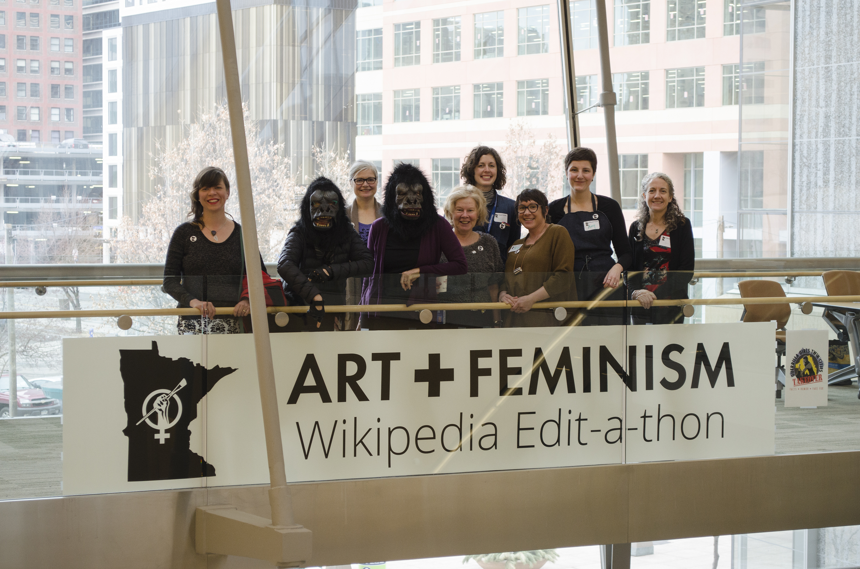 Organizers posing with the Guerrilla Girls, Käthe Kollwitz and Frida Kahlo